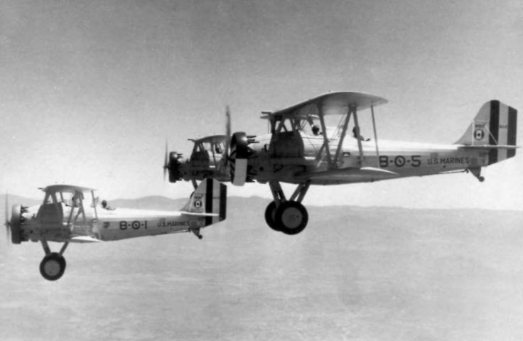 Three U.S. Marine Corps Vought SU-2 Corsair aircraft from Marine observation squadron VO-8M in flight, circa 1934.